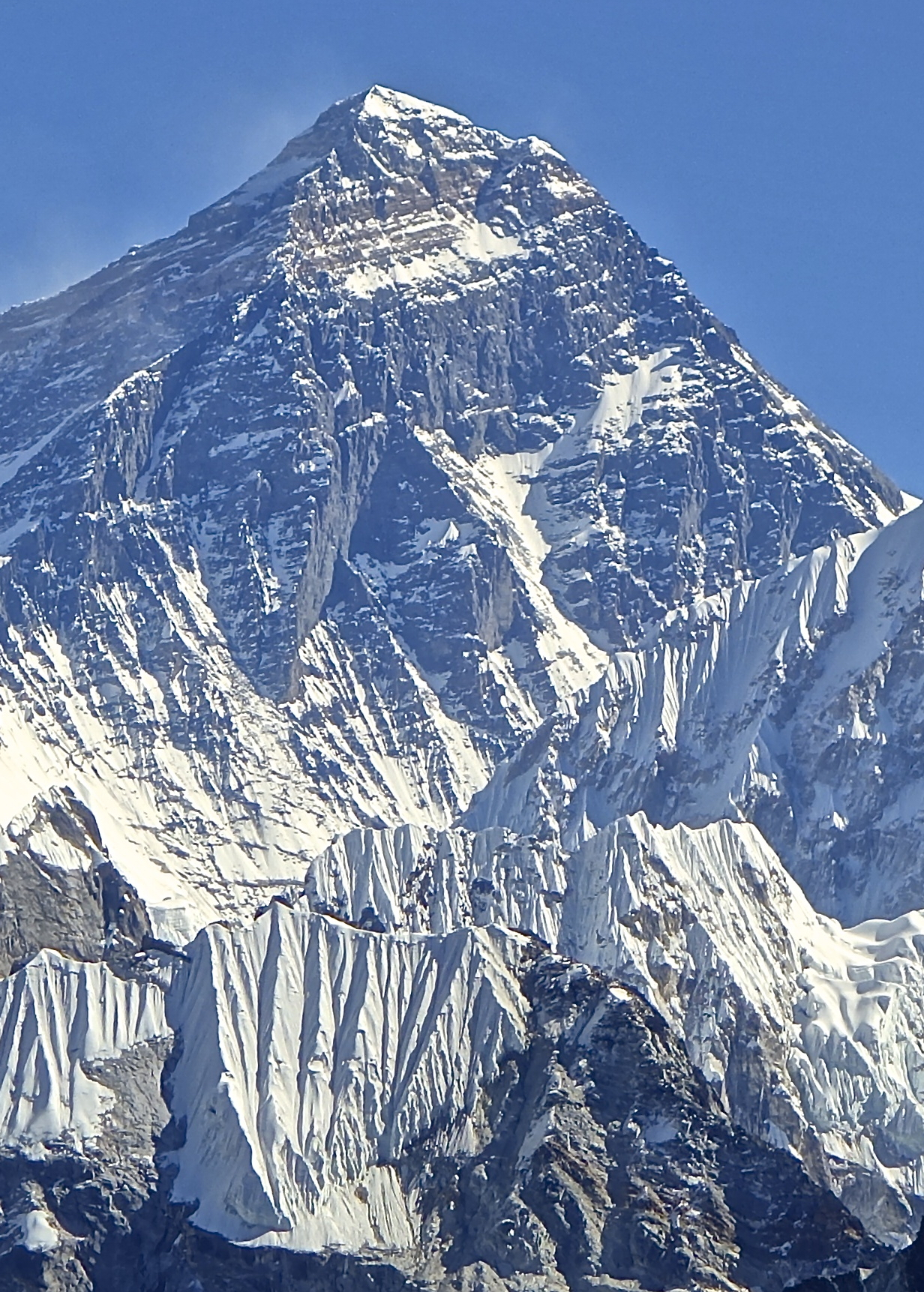 Digital photograph of Mount Everest taken at an elevation of 5,300 meter from Gokyo Ri, Khumbu, Nepal